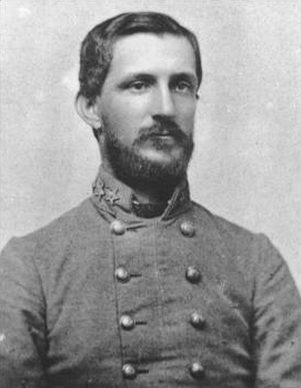 Robert Frederick Hoke, Confederate General, transferred from from WP